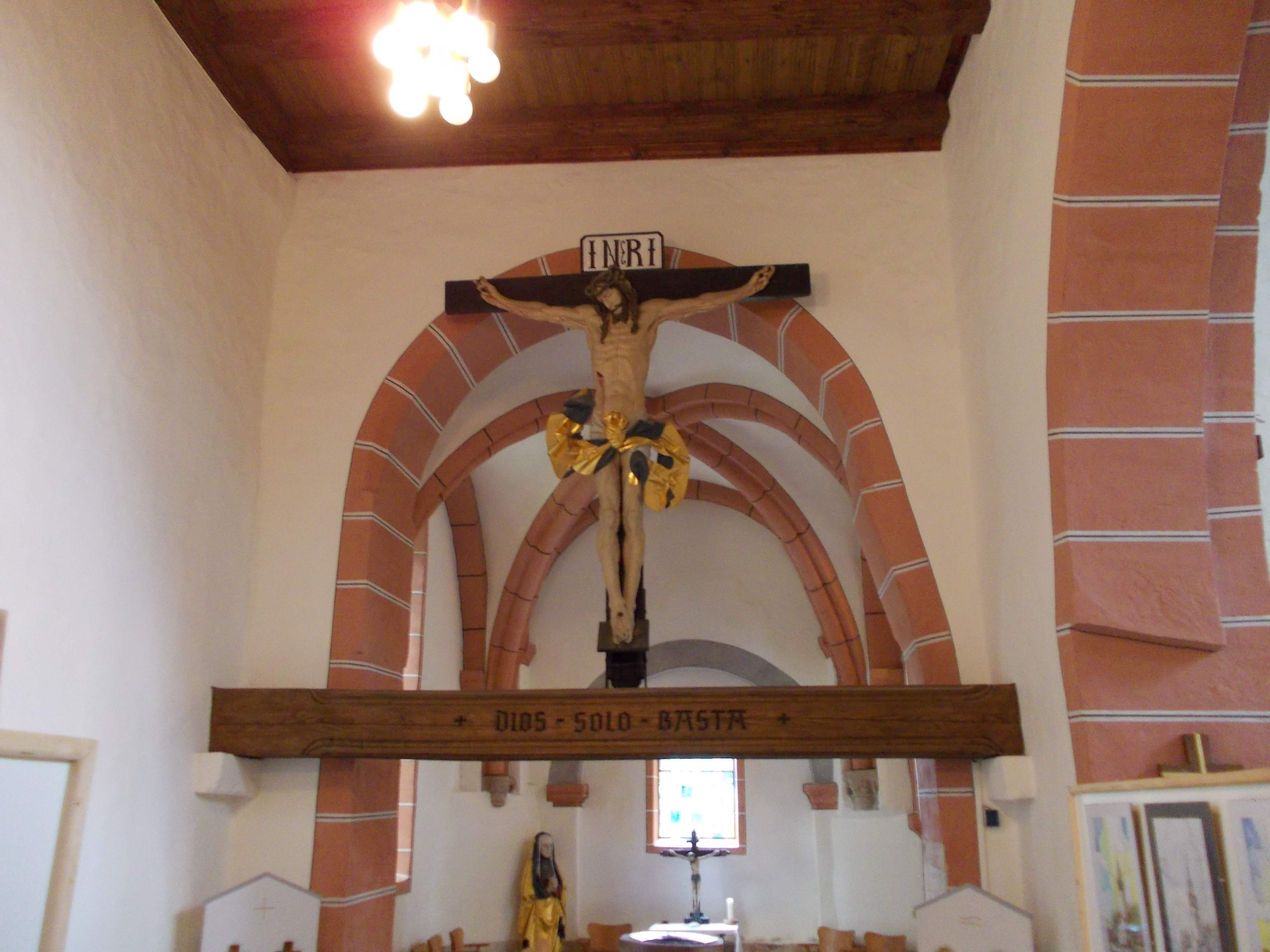 Triumphal cross by Hans Witten in St. Vitus' Church in Veitsberg (Wünschendorf/Elster, Greiz district, Thuringia)